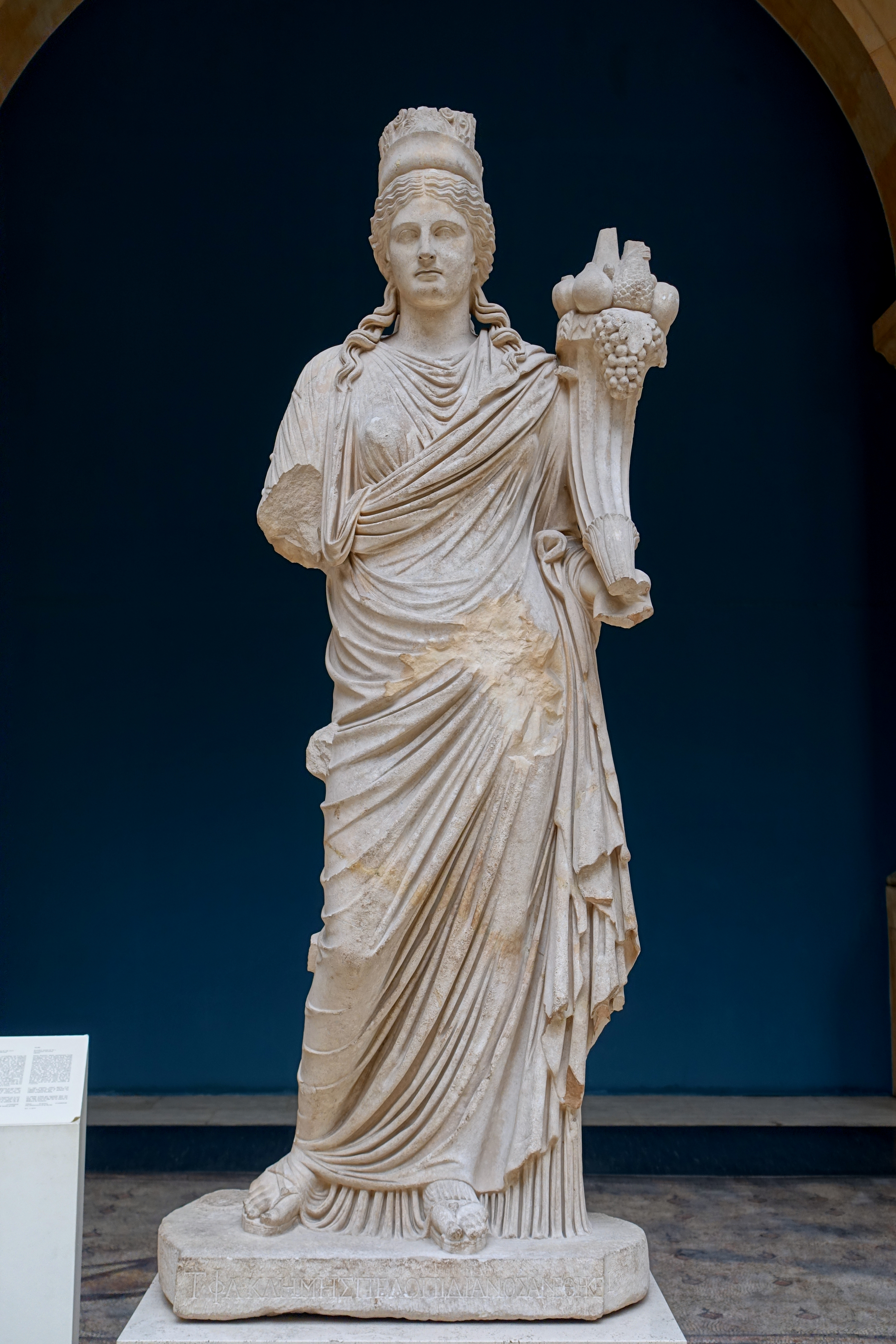 Exhibit in the Cinquantenaire Museum - Brussels, Belgium.